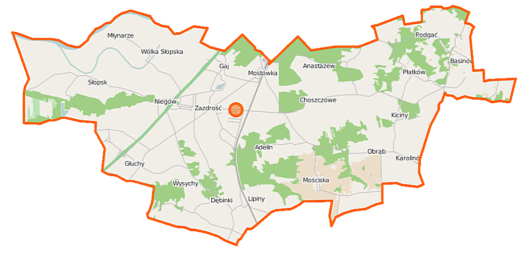 Map of Gmina Zabrodzie, Poland This map of Zabrodzie (gmina) was created from OpenStreetMap project data, collected by the community. This map may be incomplete, and may contain errors. Don't rely solely on it for navigation. Border coordinates52.544021.2991←↕→21.586852.4589